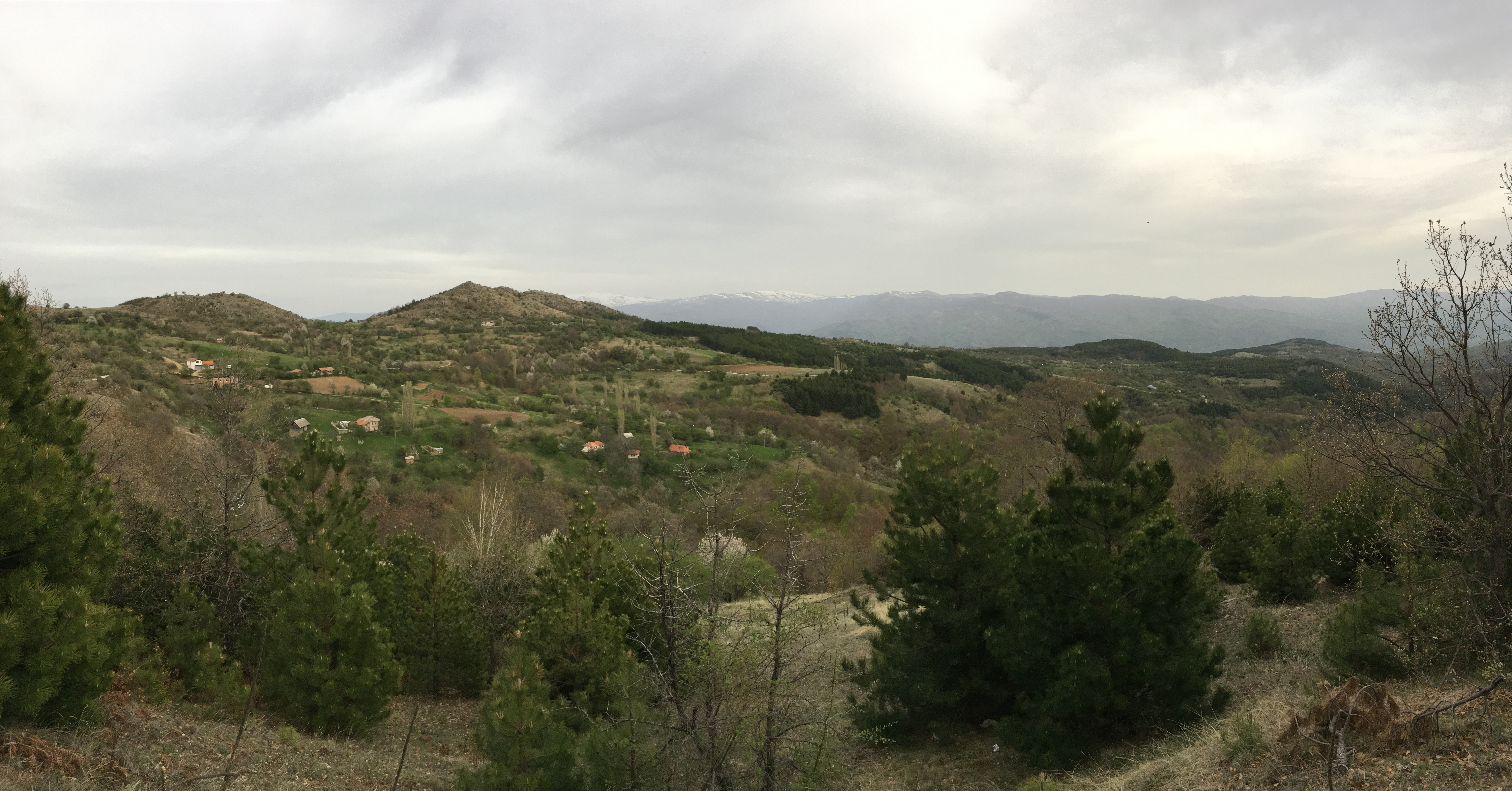 A panoramic view of Kalvinica mahala of the village of Gabar